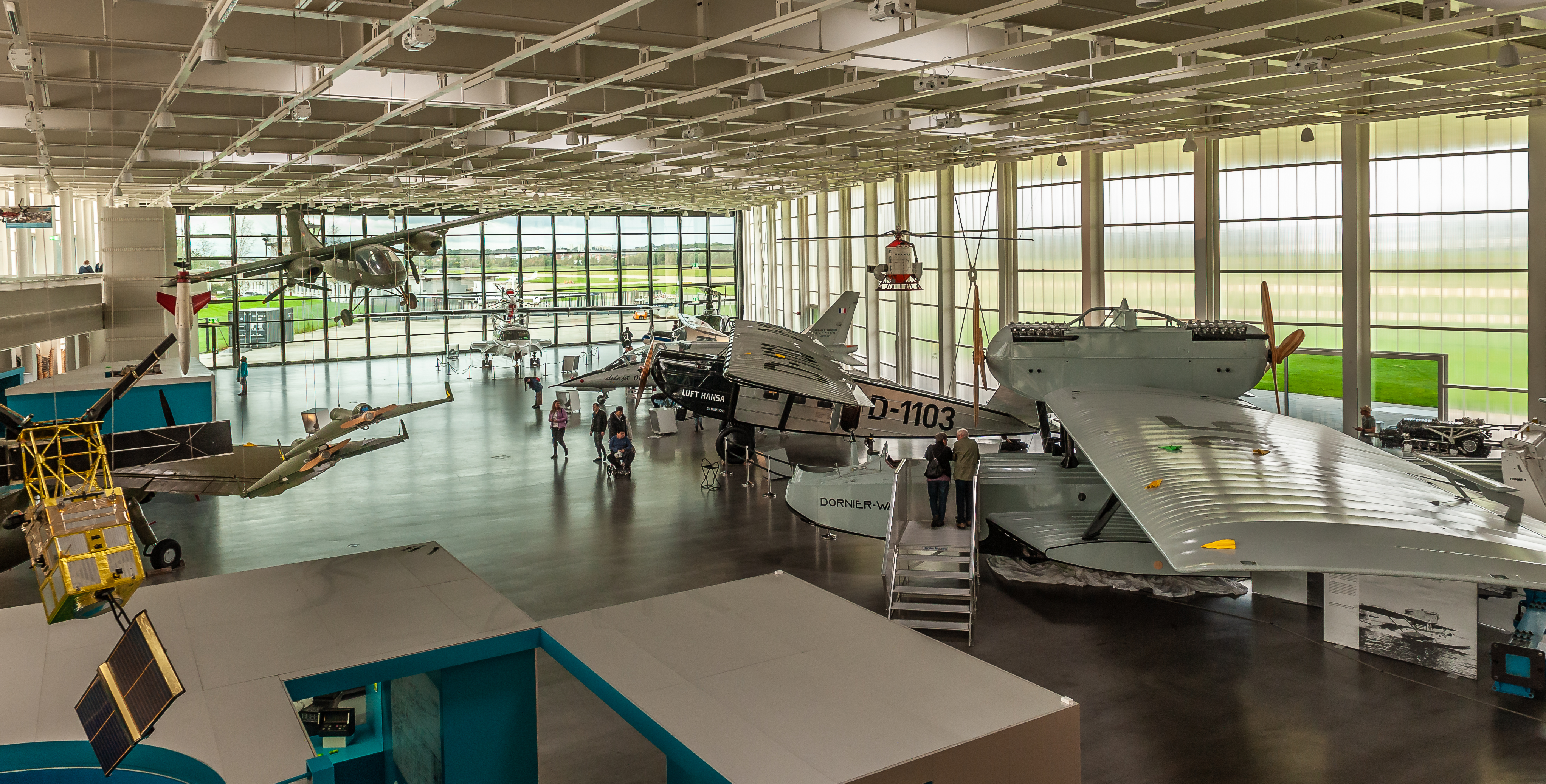 Exhibition hall in the Dornier Museum, Friedrichshafen, Germany